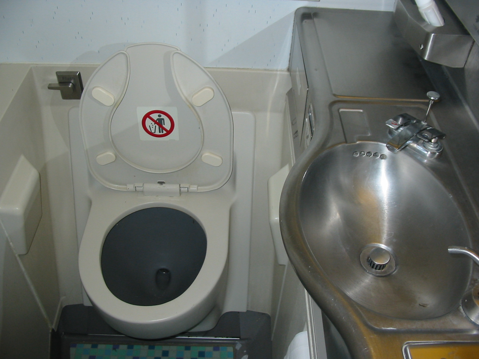 Boeing 747 toilet